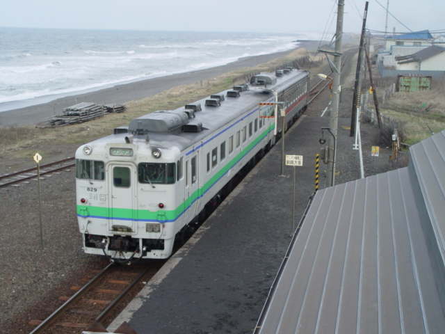 Kitahama Station (Hokkaidō)